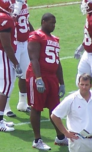 Marcus Harrison with the Hogs in 2006. Harrison was injured previous to the Alabama game, so did not dress.